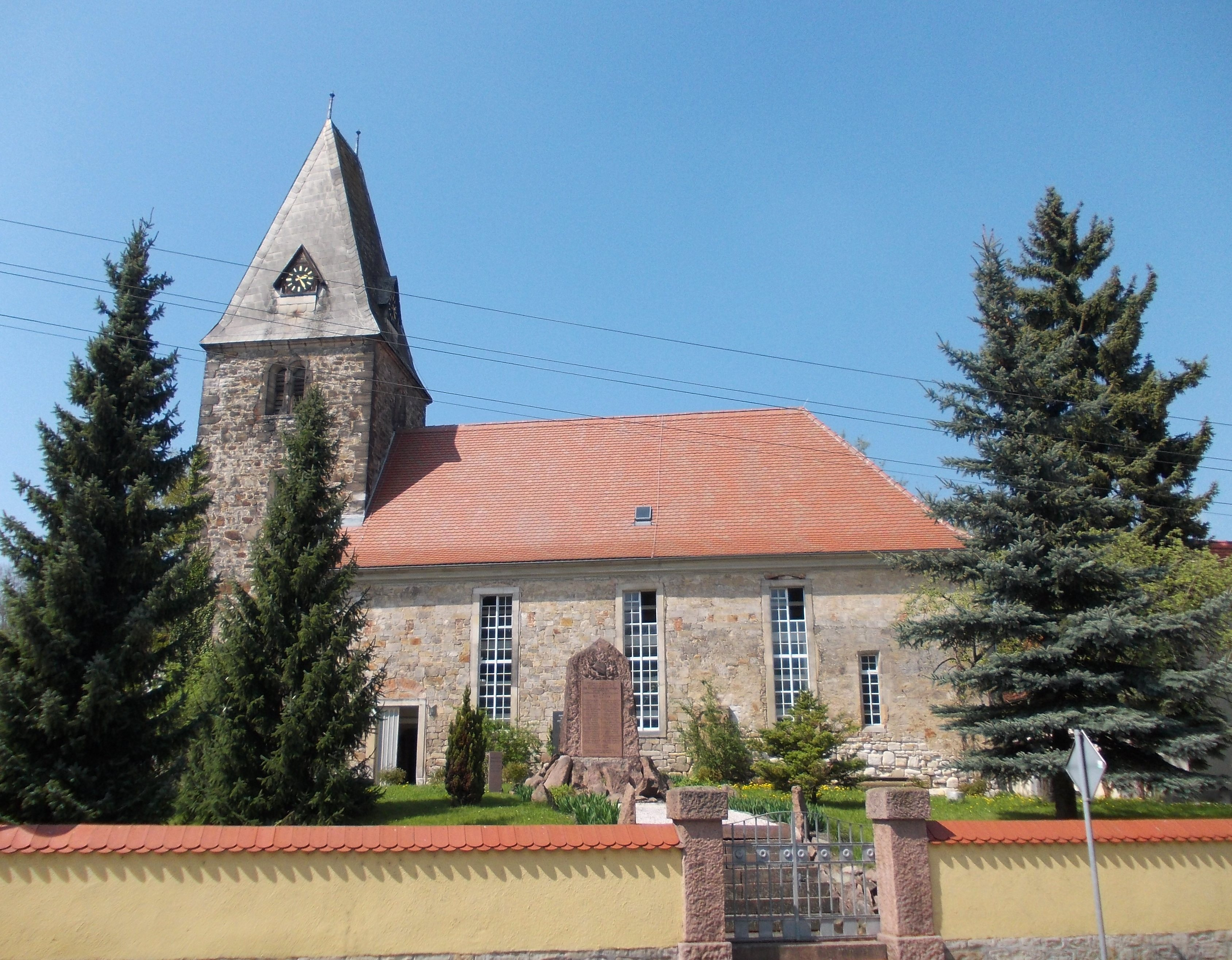 St. Othmar's Church in Unternessa (Teuchern, district: Burgenlandkreis, Saxony-Anhalt)